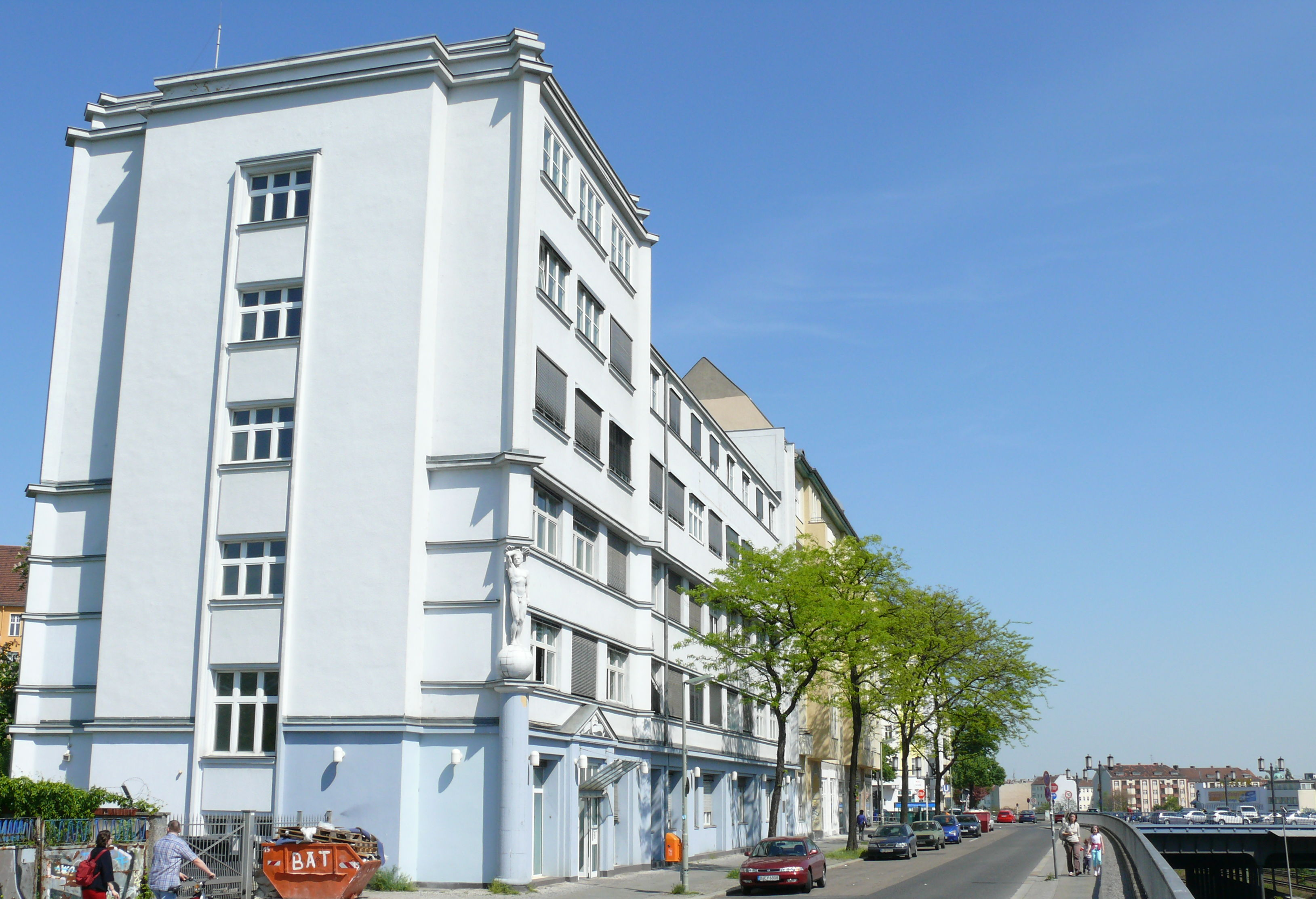 Berlin-Westend Rognitzstraße